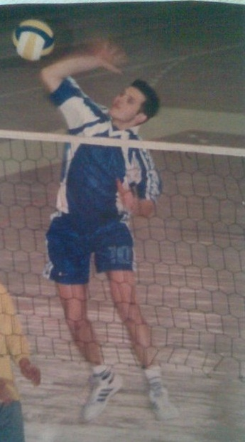 Playong Volleyball